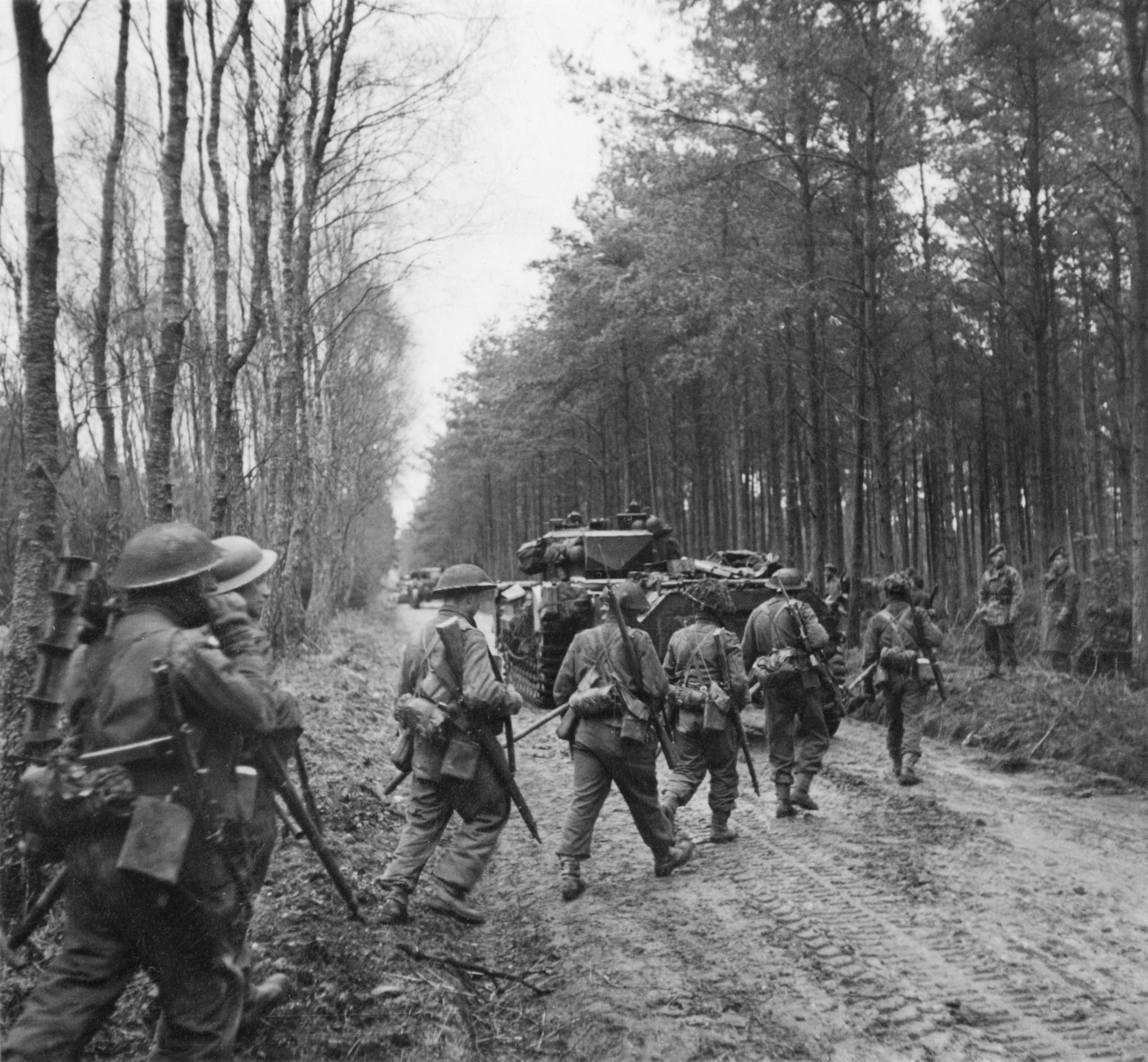 The British Army in North-west Europe 1944-45 Men of the 2nd Seaforth Highlanders and Churchill tanks in the Reichswald forest, 10 February 1945.